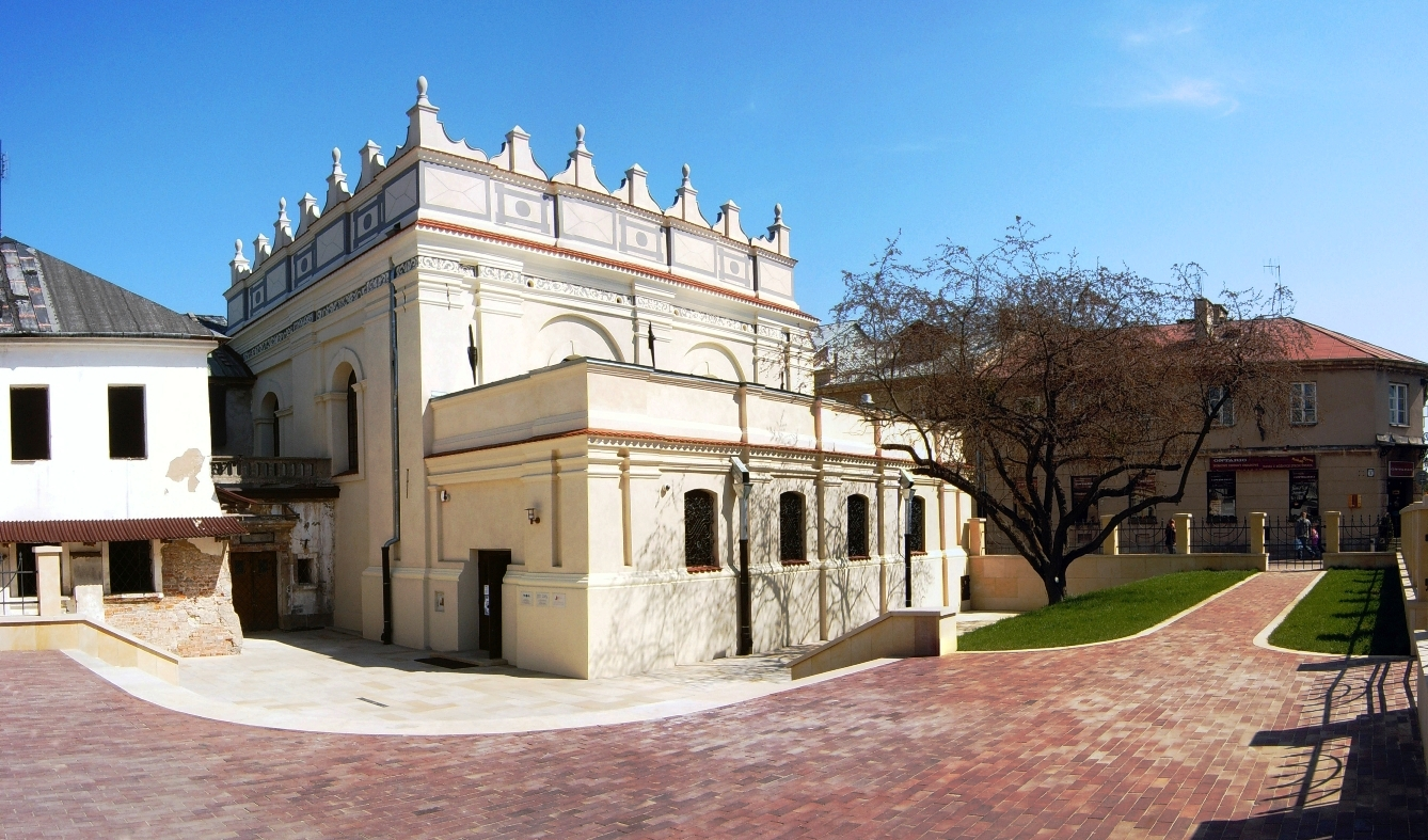 The Synagogue in Zamość (after repair; 2011 - Center "Synagogue")